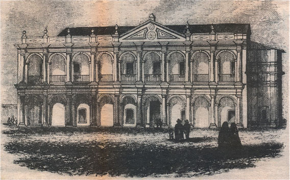 The Cabildo of Asunción (Paraguay) in 1854